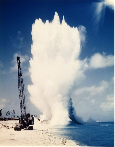 Seabees blasting near shore during construction for airfield on Eniwetok Atoll 23 June 1944.